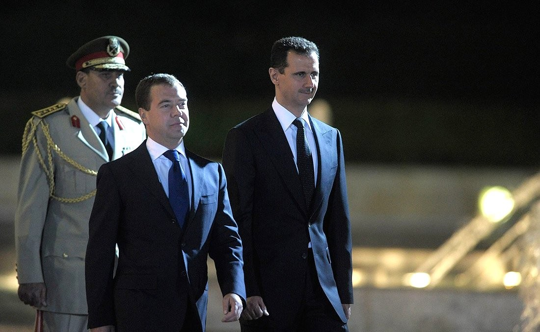 Welcoming ceremony. With President of Syria Bashar al-Assad.